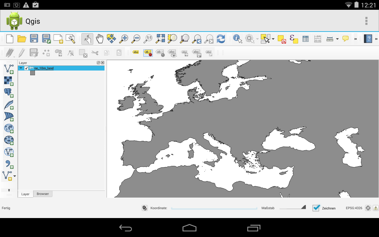 A Screenshot oft QGIS-Android from a 18 cm diagonale device. Data from Naturalearthdata.